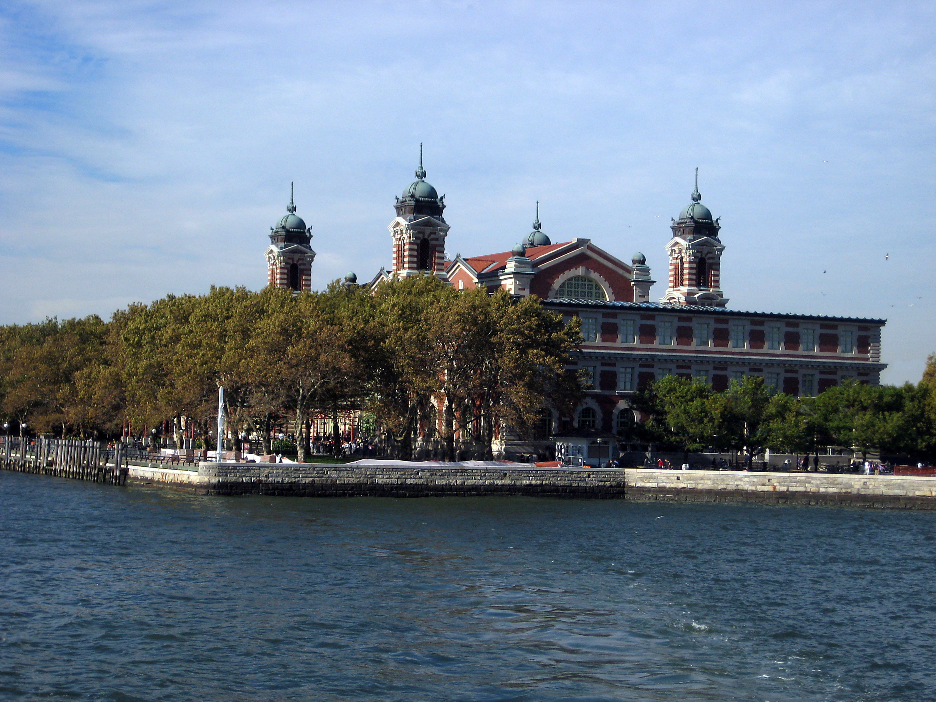 Ellis Island, shot from departing Ferry